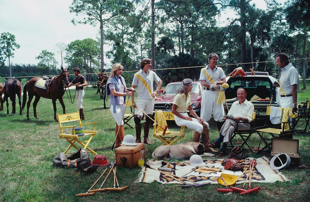 Paul Butler with family playing polo in Palm Beach, by Slim Aarons